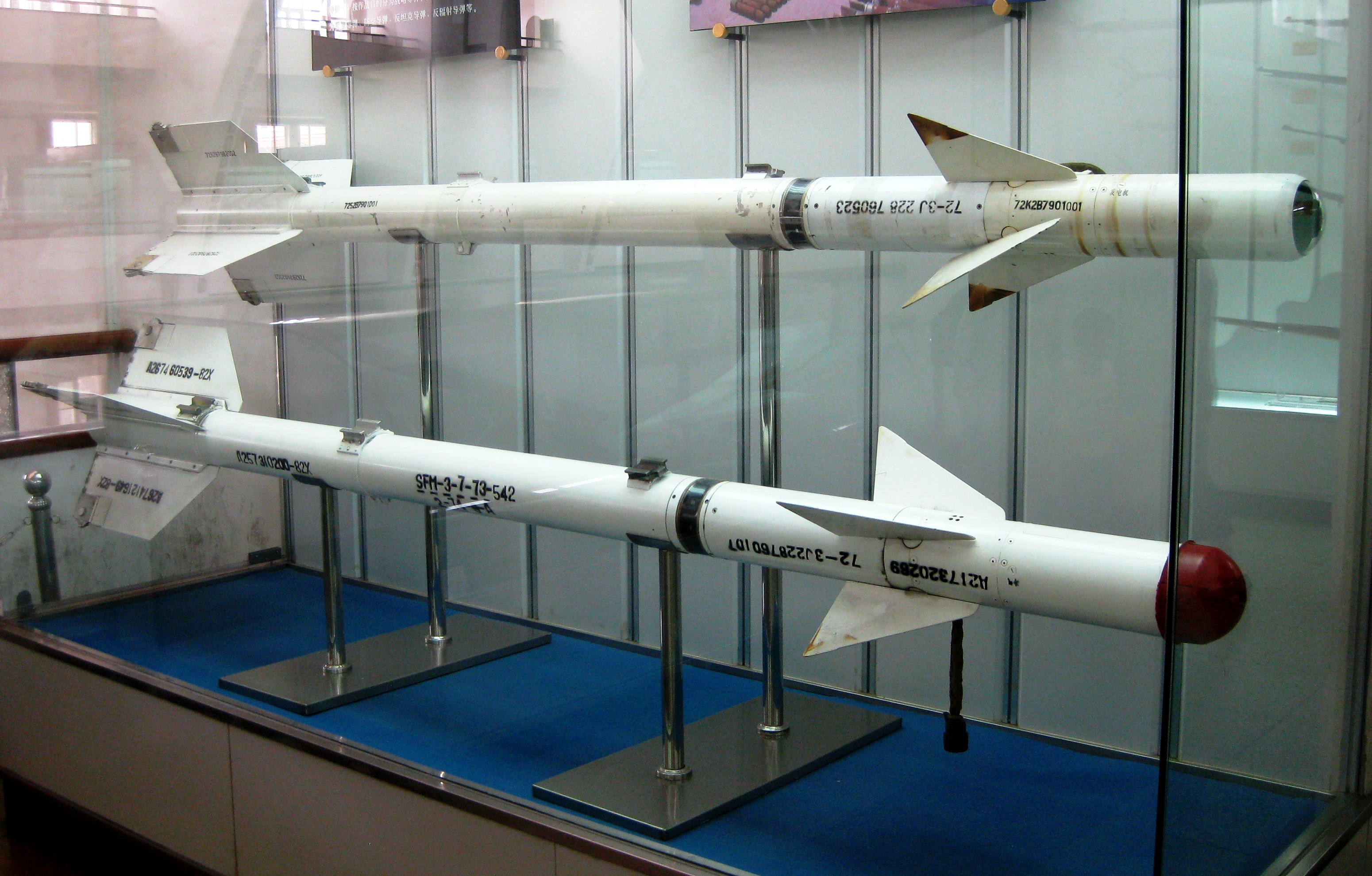 Chinese air-to-air missiles in the Military Museum of the Chinese People's Revolution.